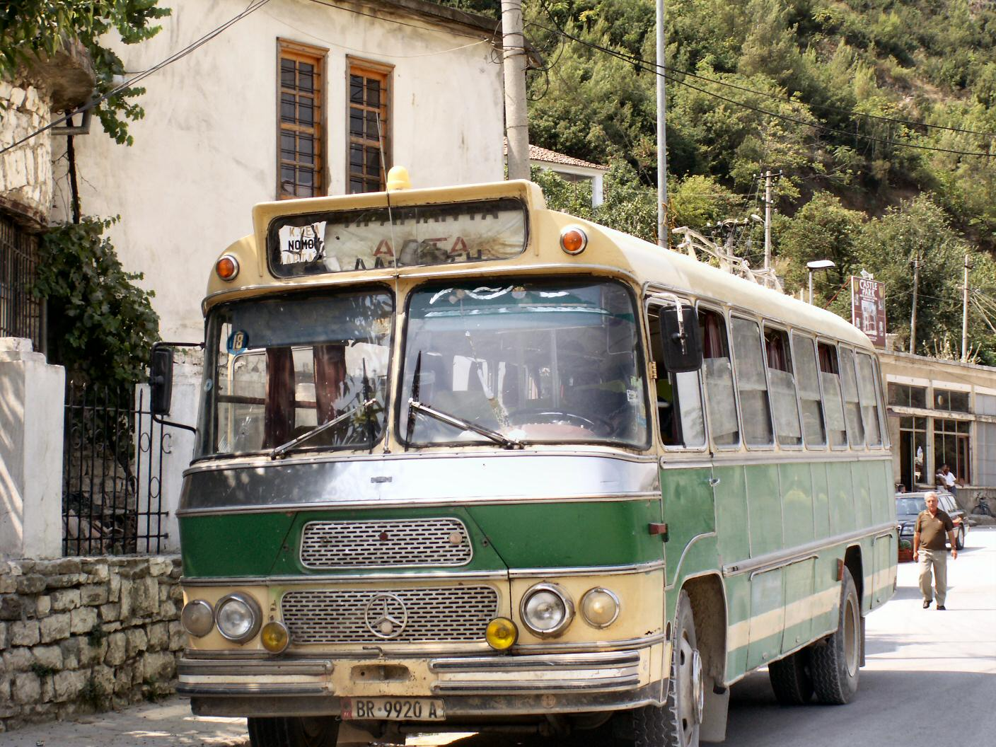 Driving Albania 163 - Old Bus